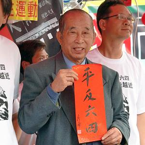 Szeto Wah